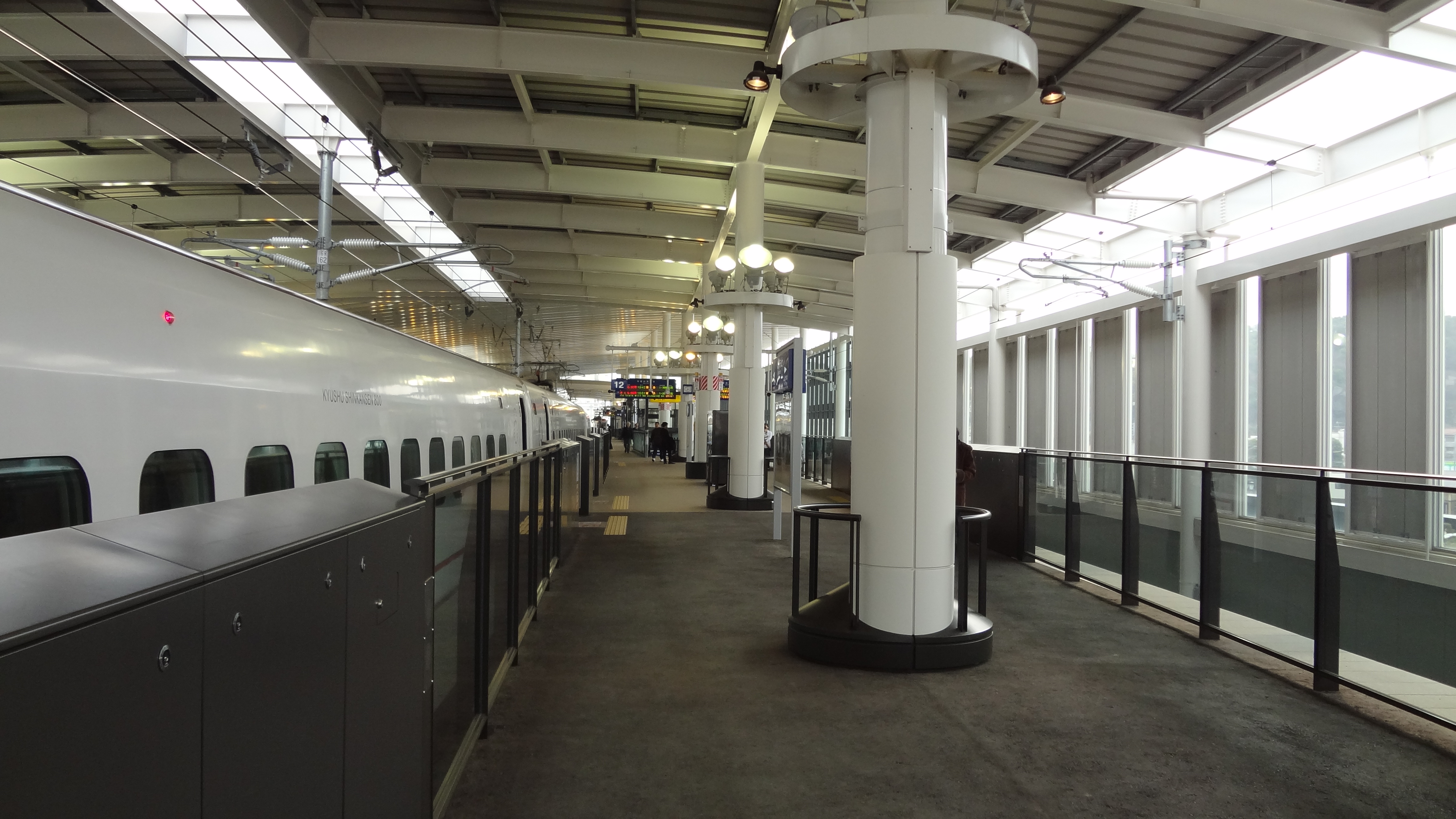 Kumamoto Station Platform 11/12 for the Kyushu Shinkansen